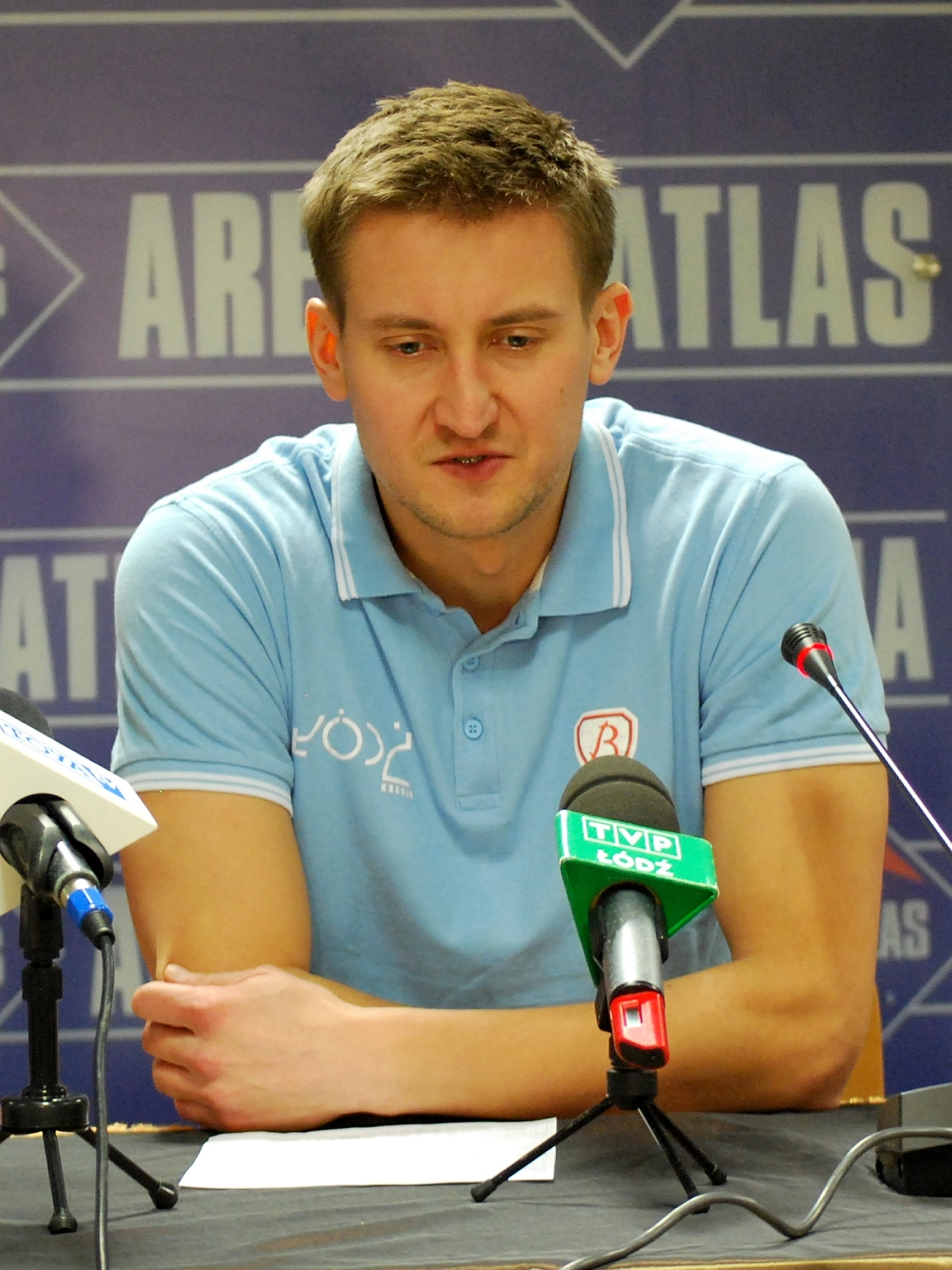 Błażej Krzyształowicz, volleyball coach from Poland